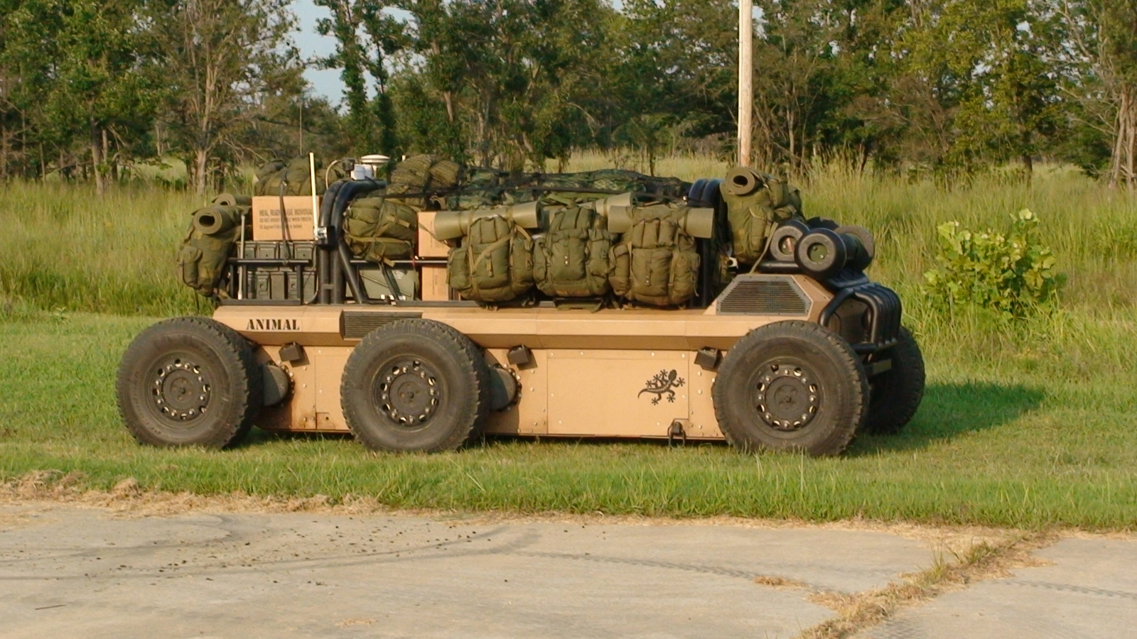 FCS MULE low in grass